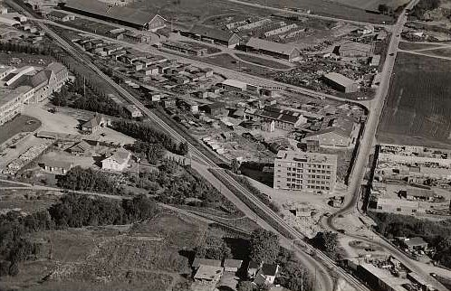 Oslo Trelastkompani at Økern in Oslo, Norway, with the Alna Line in the foreground